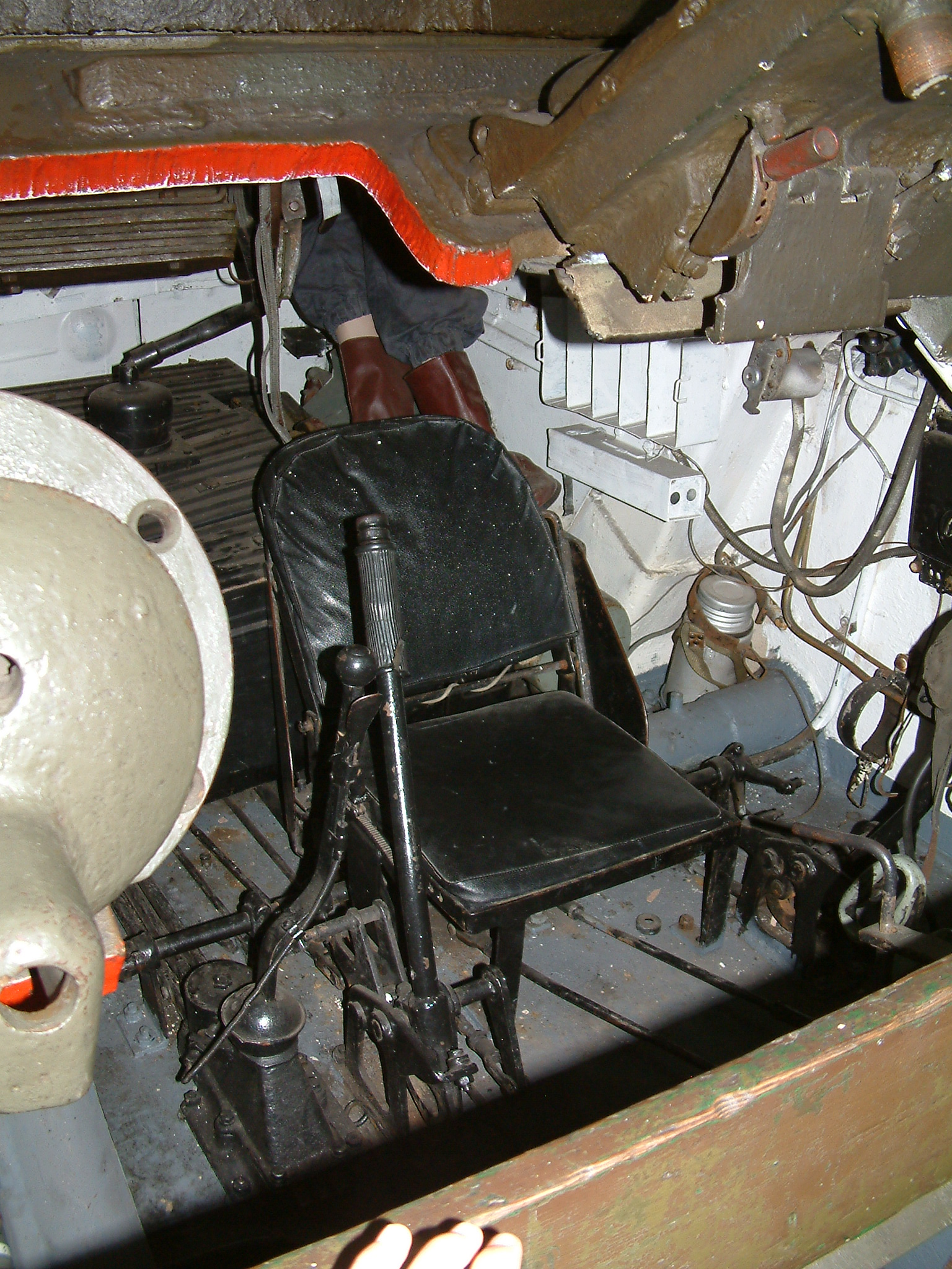 T-34 No. 102 "Rudy"